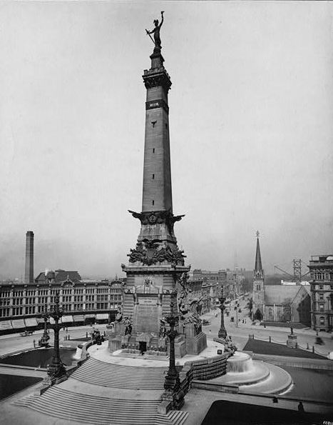 3. Historic American Buildings Survey PHOTOCOPY: EXTERIOR, SOUTH ELEVATION, c. 1898 HABS, IND,49-IND,16-3 Number three in a series of 15 photos of the Soldiers' and Sailors' Monument, Indianapolis, IN. Source:Library of Congress